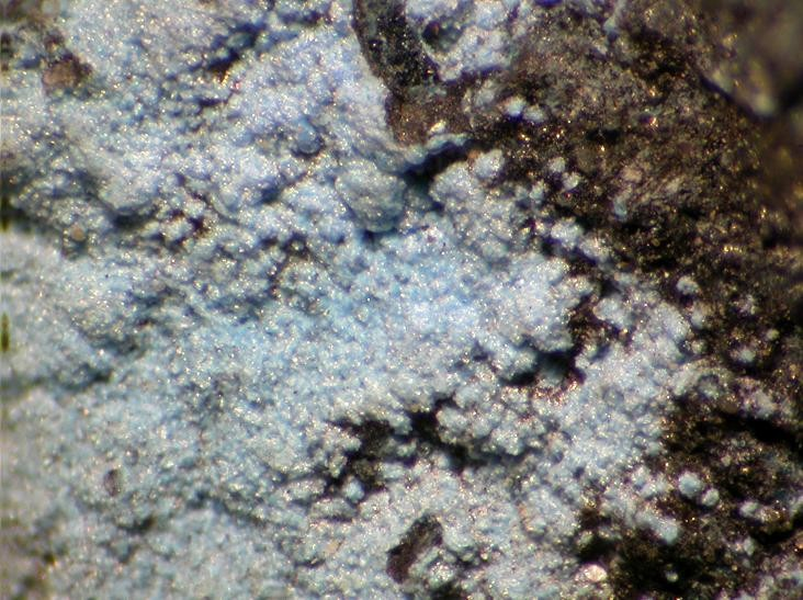 Spertiniite Locality: Dzhezkazgan Mine (Zhezkazgan Mine), Dzhezkazgan, Zhezqazghan Oblysy (Dzezkazgan Oblast'; Dzhezkazgan Oblast'; Djezkazgan Oblast'; Jezkazgan Oblast'), Kazakhstan (Locality at ) Light blue Spertiniite (analysed). Field of view 5 mm. Specimen and photo Leon Hupperichs.